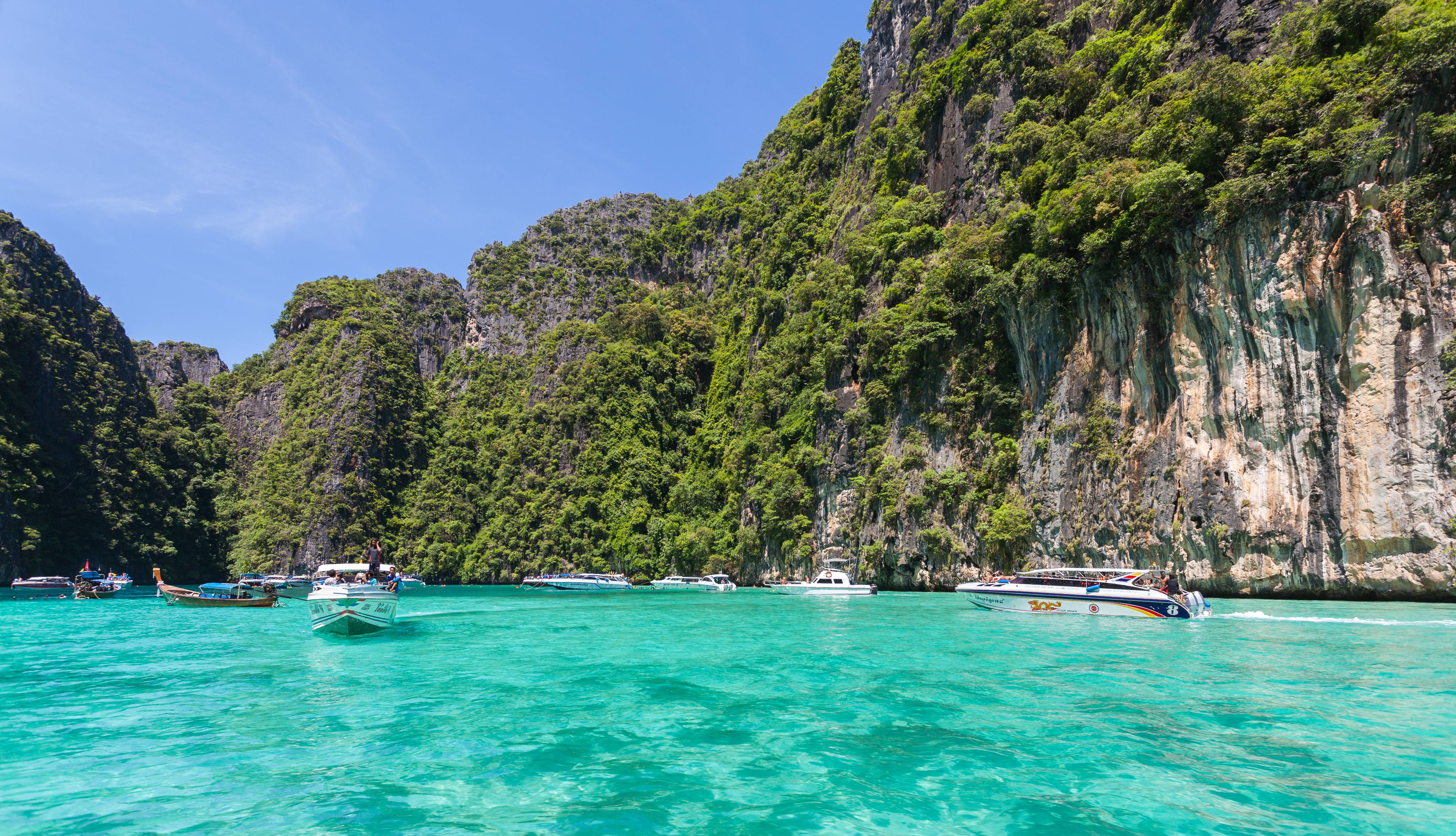 Phi Phi Lay Island, Thailand